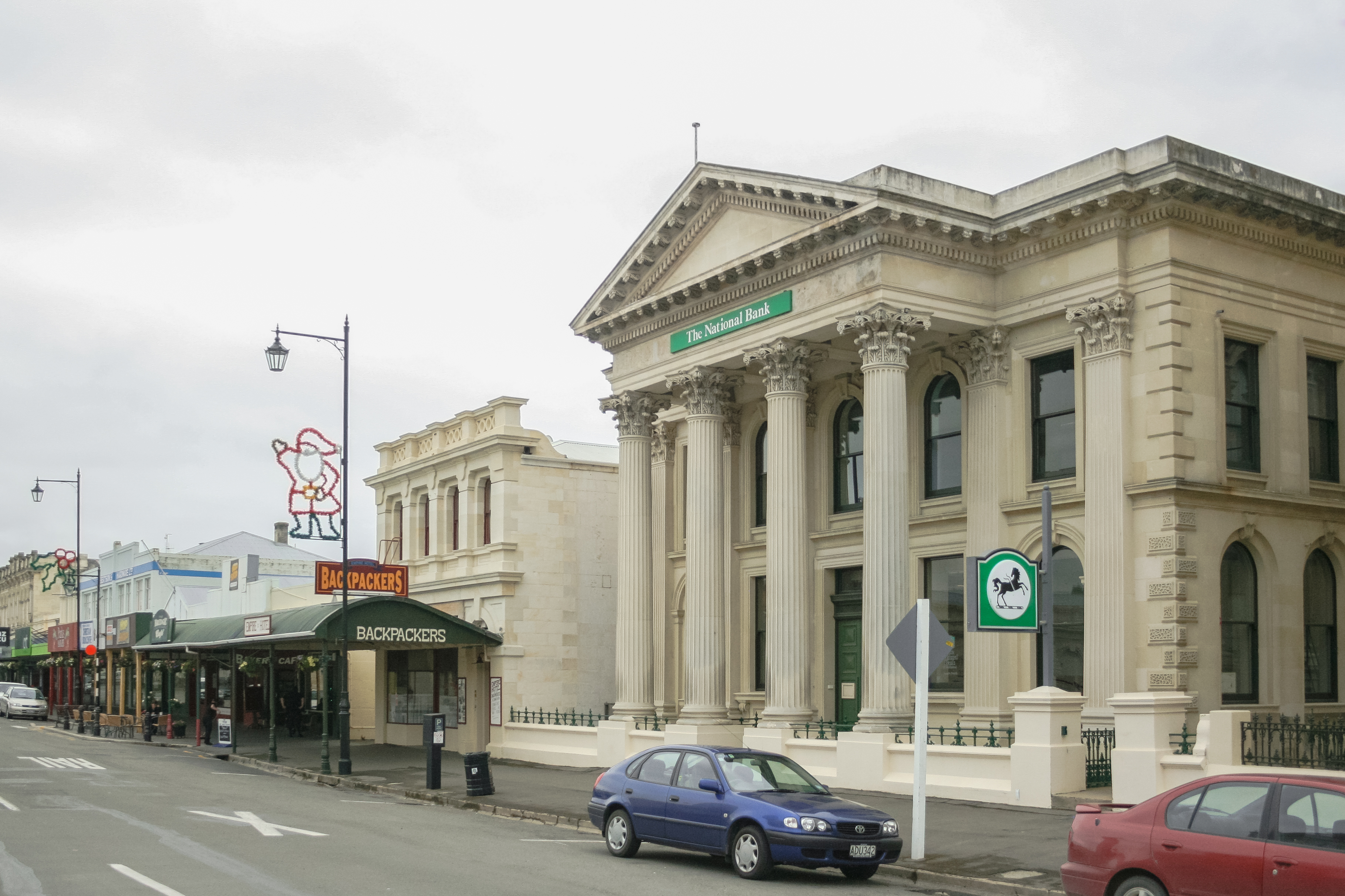 Oamaru, New Zealand